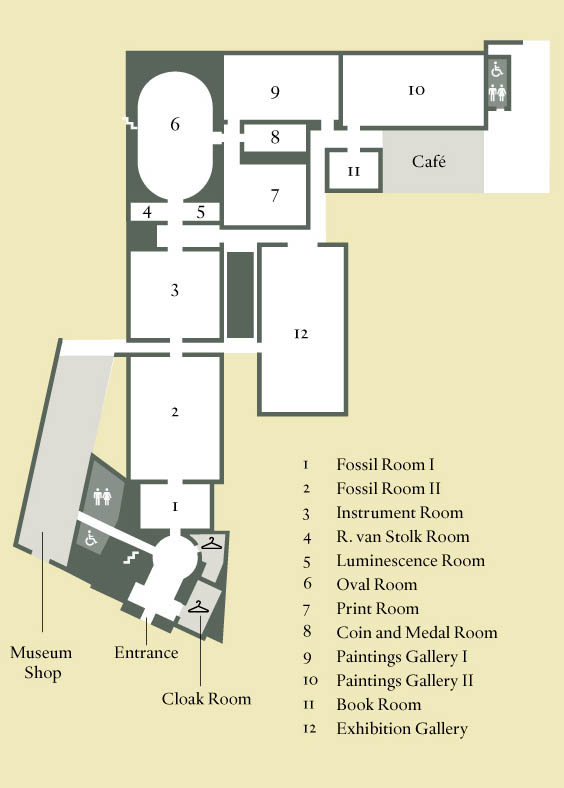 Map of Teylers Museum, haarlem, the Netherlands.